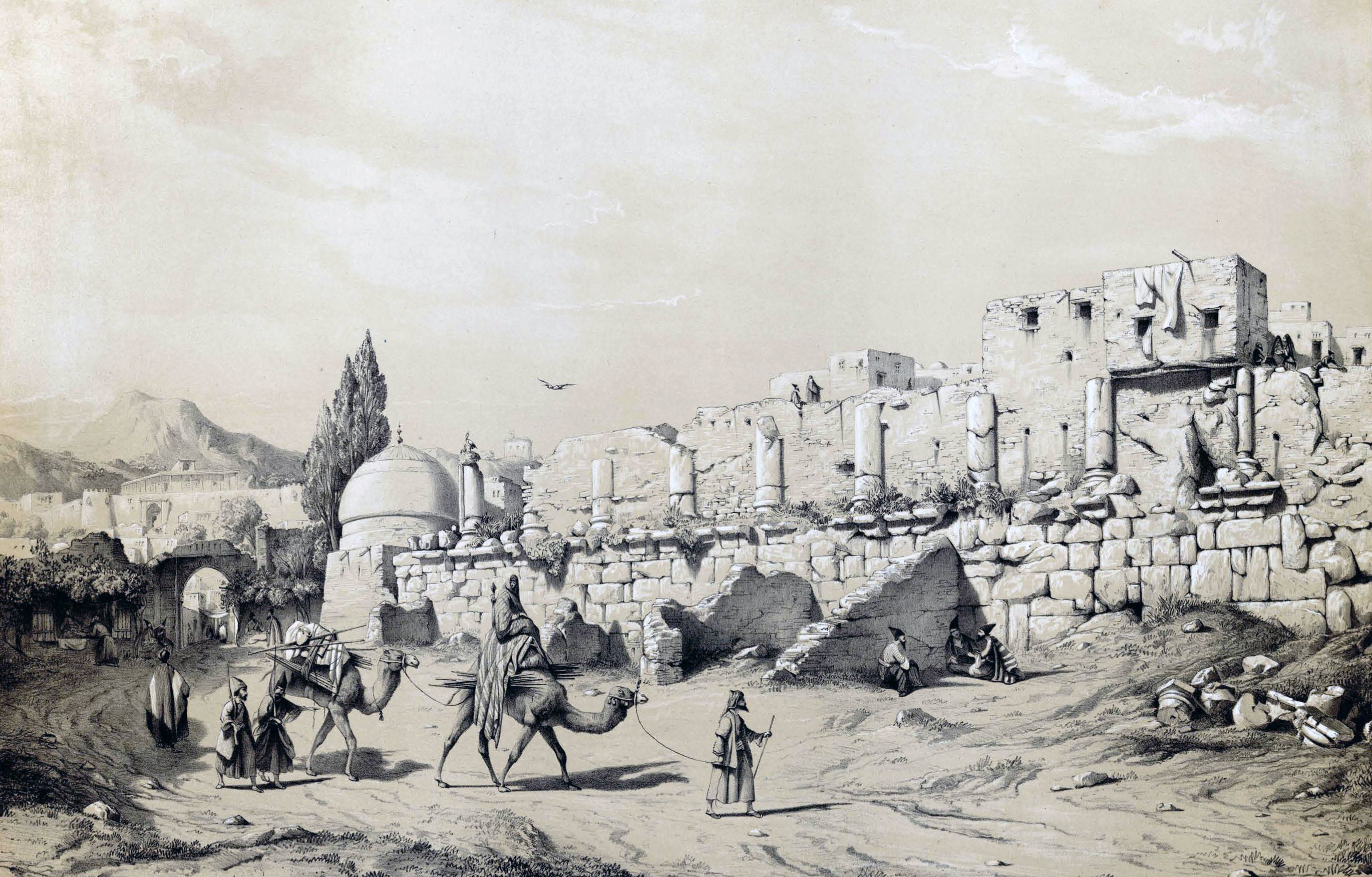 Ruins of the Temple of Anahita in Kangavar, Iran